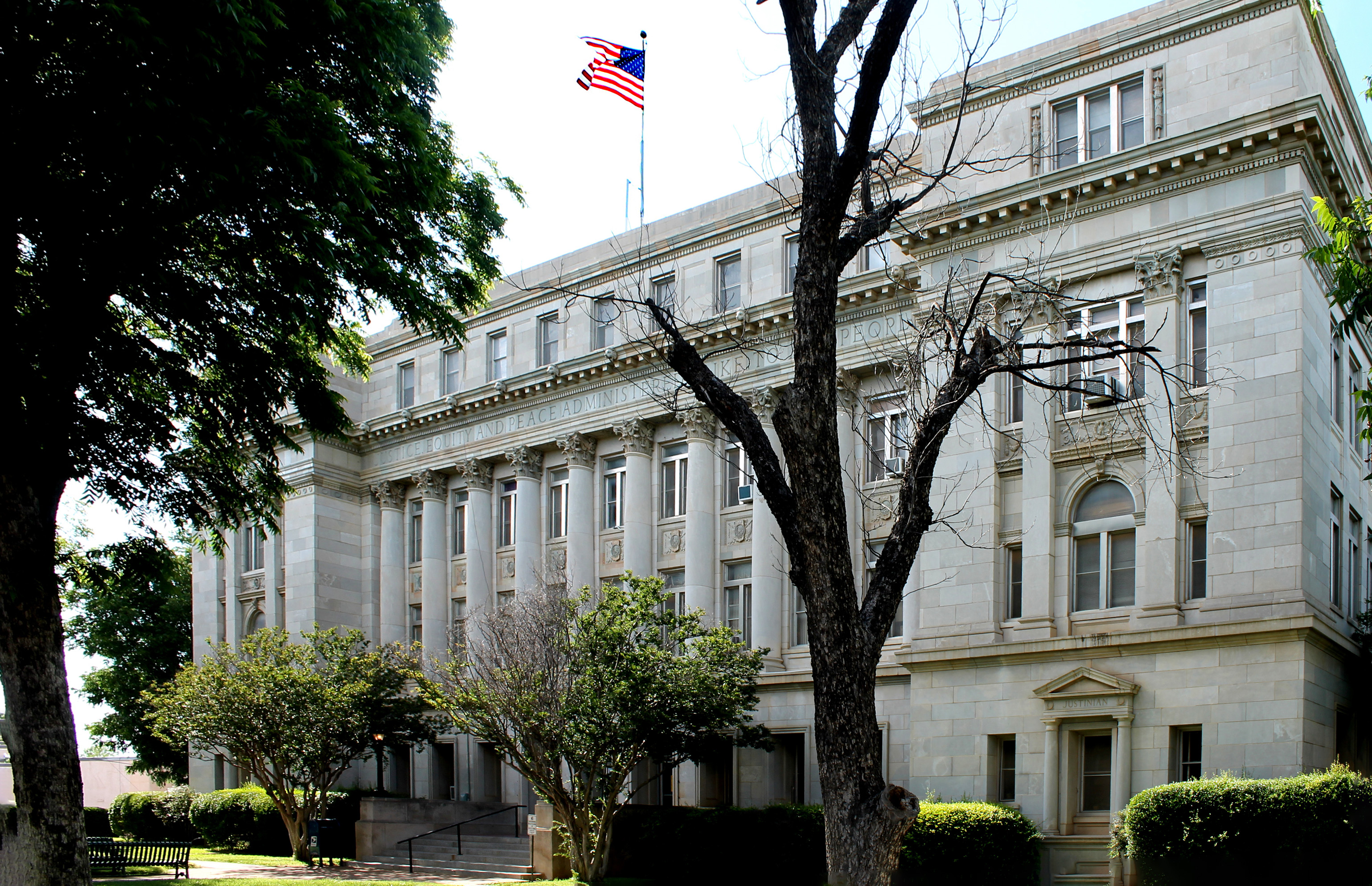 The Stephens County Courthouse in Breckenridge, Texas. Built in 1926, the building was listed on the National Register of Historic Places on July 9, 1997.